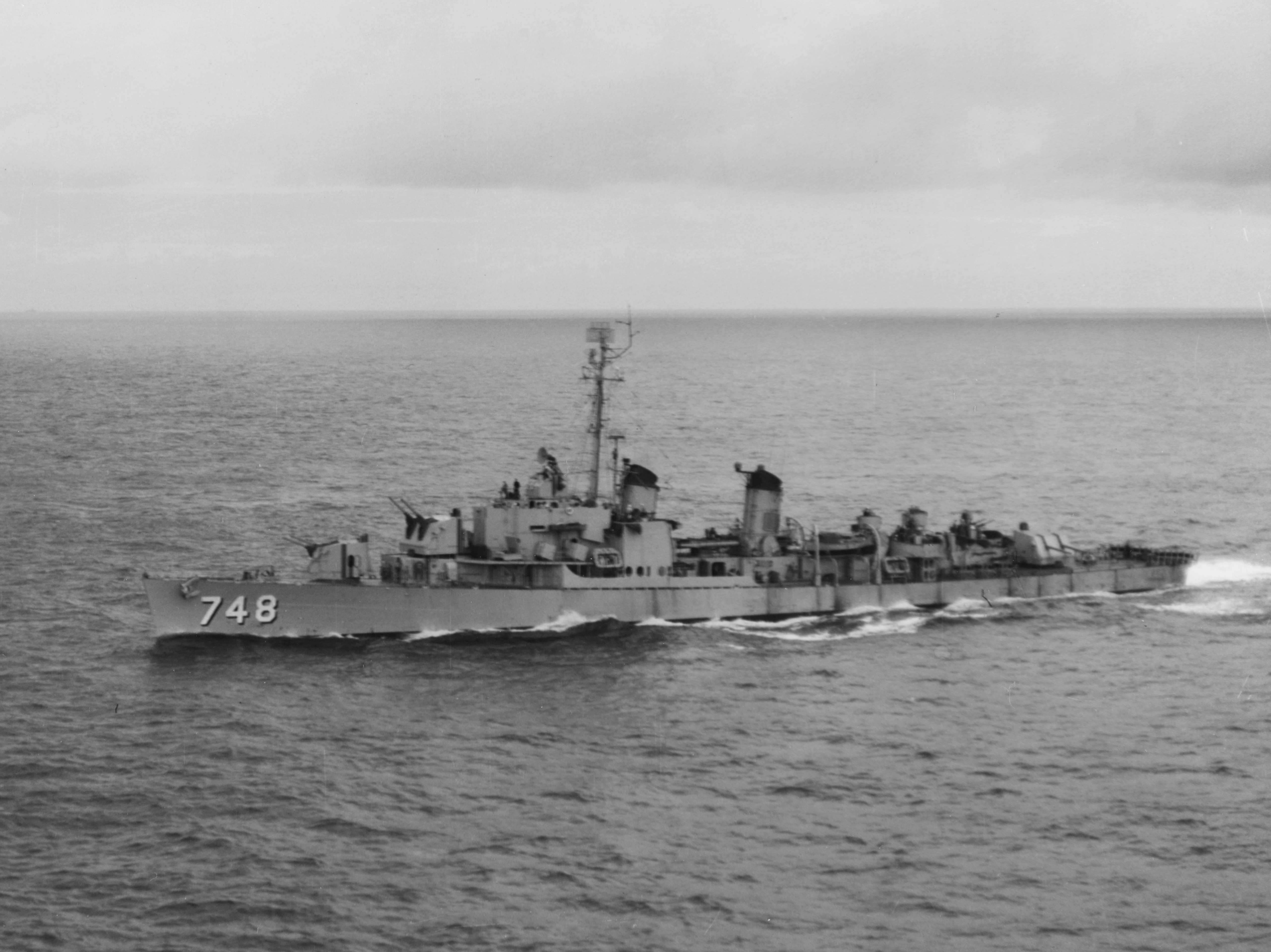 The U.S. Navy destroyer USS Harry E. Hubbard (DD-748) underway at sea on 8 August 1952.